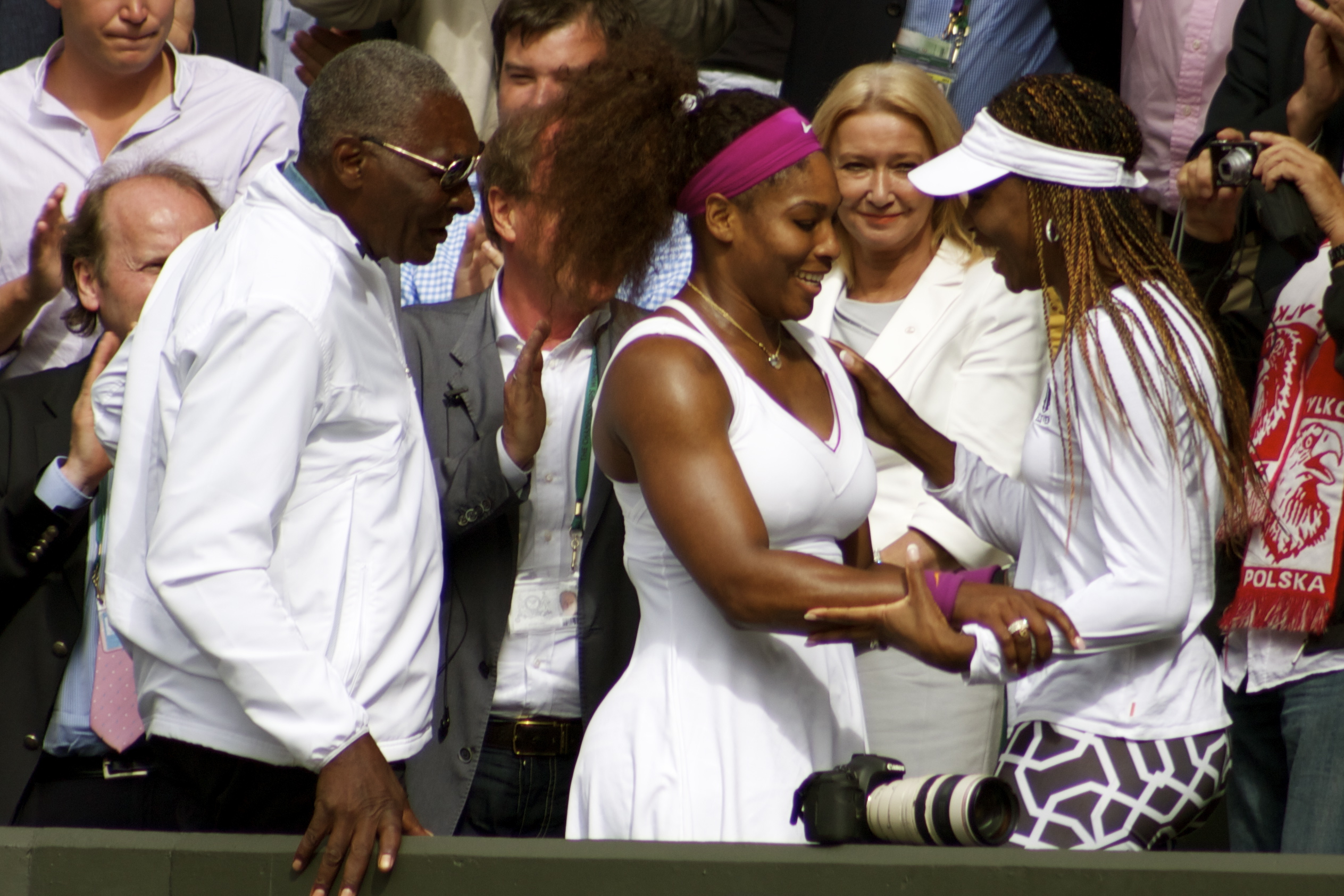 Serena Williams embraces Venus Williams after winning the Wimbledon Ladies' Singles Final 2012 as their father looks on